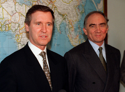 Secretary of Defense William S. Cohen (left) and Minister of State for Defense Charles Millon (right), of the French Republic, respond to questions during a media availability prior to their meeting in the Pentagon.